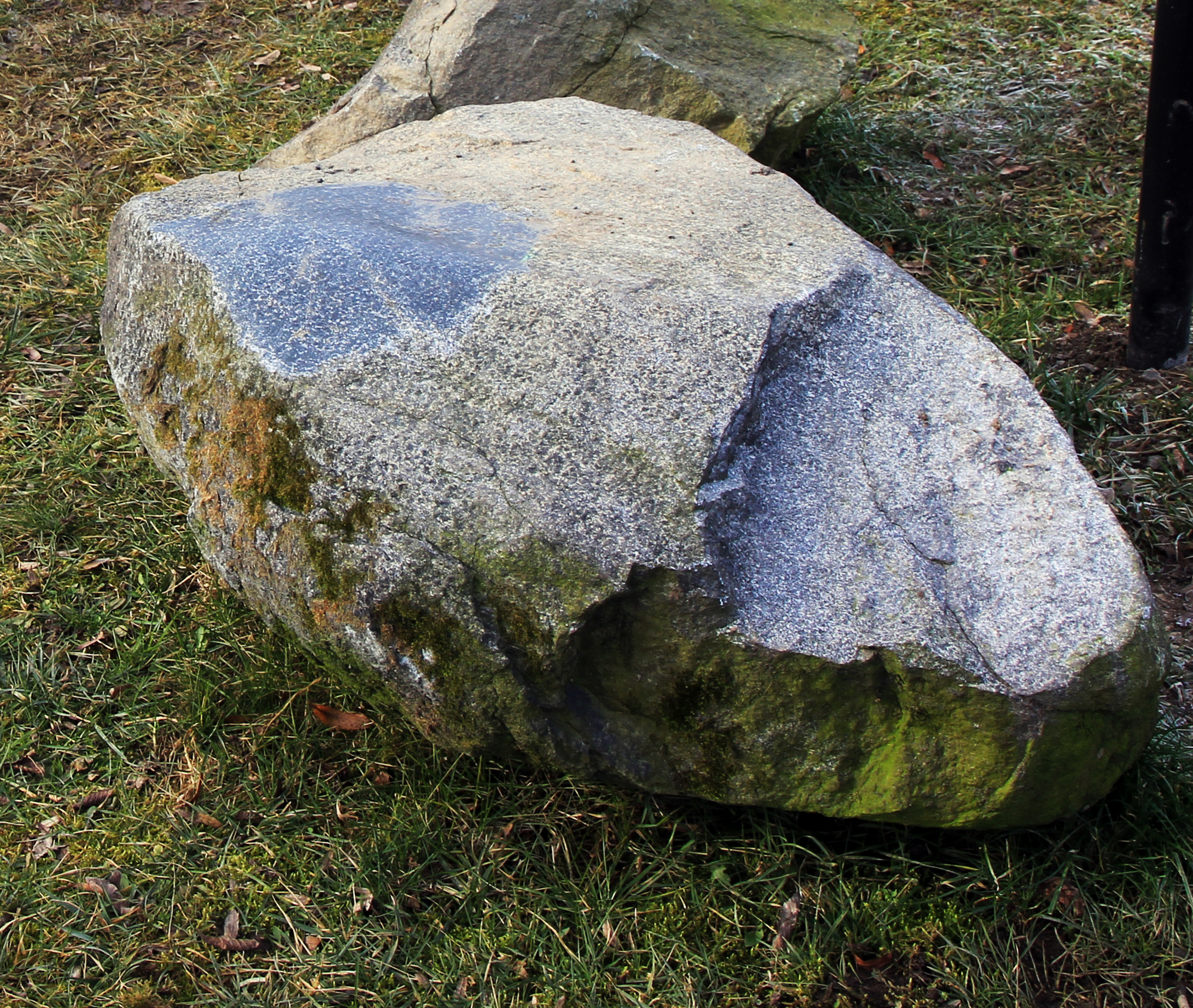 The rock gabbro from quarry near of the Czech village Pecerady exhibited in small geopark “Geologická zahrada” in Dolní Počernice, Prague, Czech Republic